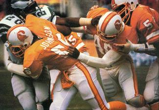 A football card from the 1986 Jeno's Pizza NFL football card stickers set of Tampa Bay Bucaneers' linebacker Cecil Johnson tackles Philadelphia Eagles' running back Leroy Harris during the 1979 NFC Divisional Playoff Game on December 29, 1979. The card is numbered #20 in the set. The back of the card reads: TAMPA BAY: FROM WORST TO FIRST Tampa Bay linebacker Cecil Johnson leads a defensive charge that smothers Eagles' running back LeRoy Harris, as the Bucaneers stop Philadelphia 24-17 in their 1979 NFC Divisonal Playoff Game. Tampa Bay, which won the Central Division title in 1979 after finishing last the previous three years, held the Eagles to just 48 yards rushing.